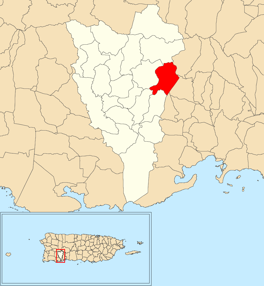 Sierra Alta, Yauco, Puerto Rico locator map